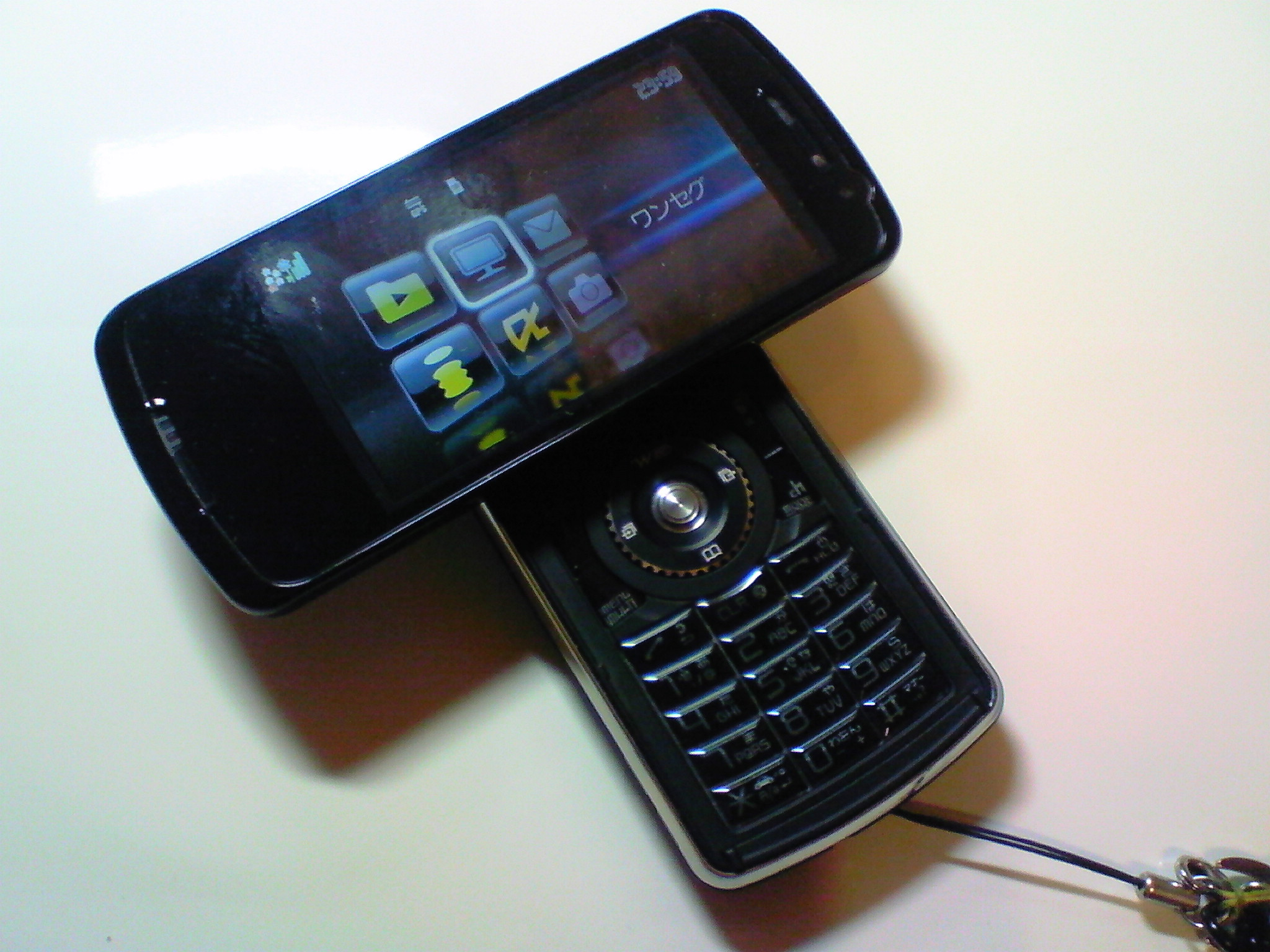 NTTDocomo CellPhone FOMA N-06A ShareStyle